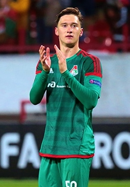 Aleksei Miranchuk